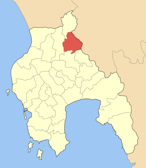 Locator map of Andanias municipality (Δήμος Ανδανίας) at Messinia perfecture, Greece.